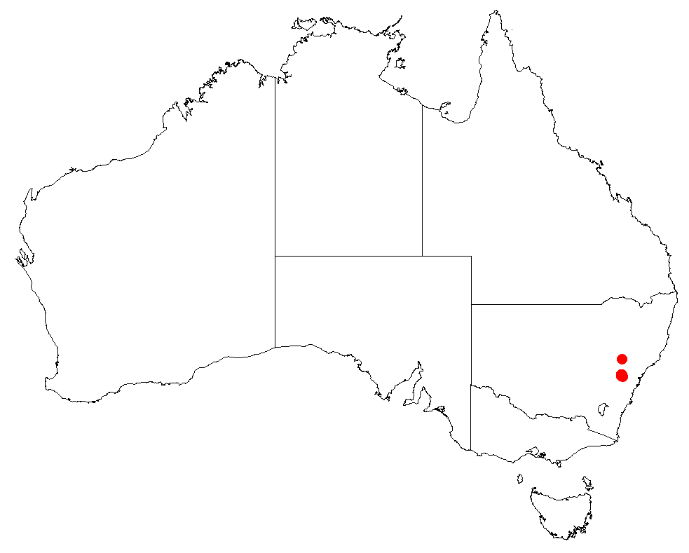 Persoonia hindii Occurrence data downloaded from Australasian Virtual Herbarium on 30 October 2018 from